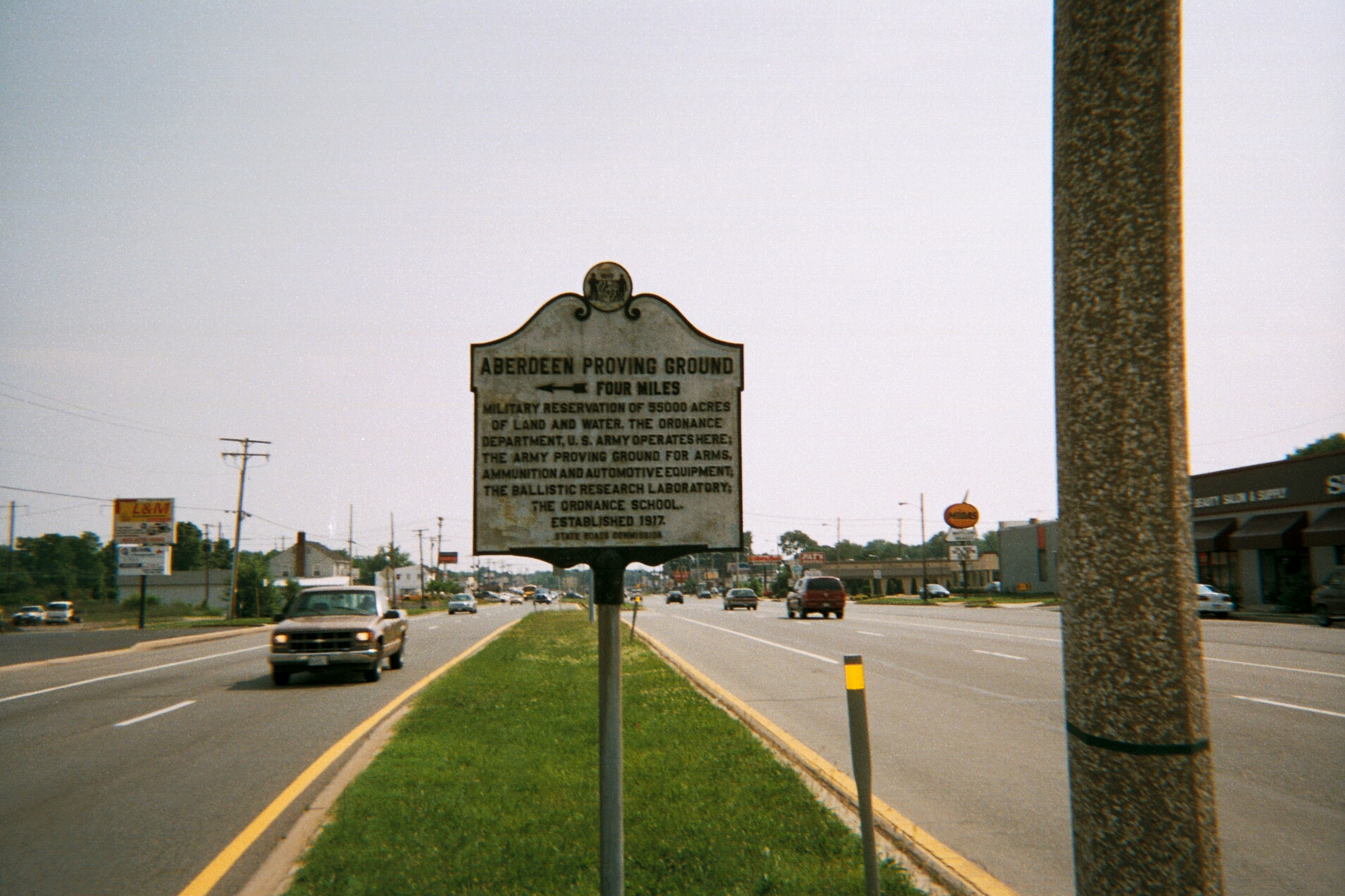 Historic plaque about the Aberdeen Proving Ground on the median of U.S. Route 40 in Aberdeen, Maryland.